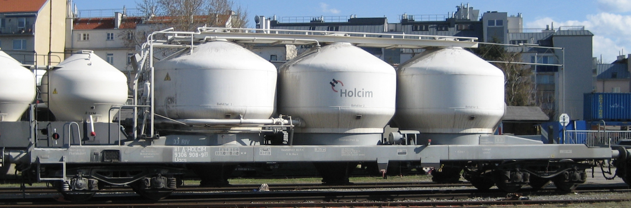 Uacs silo railway wagon used for the transport of cement